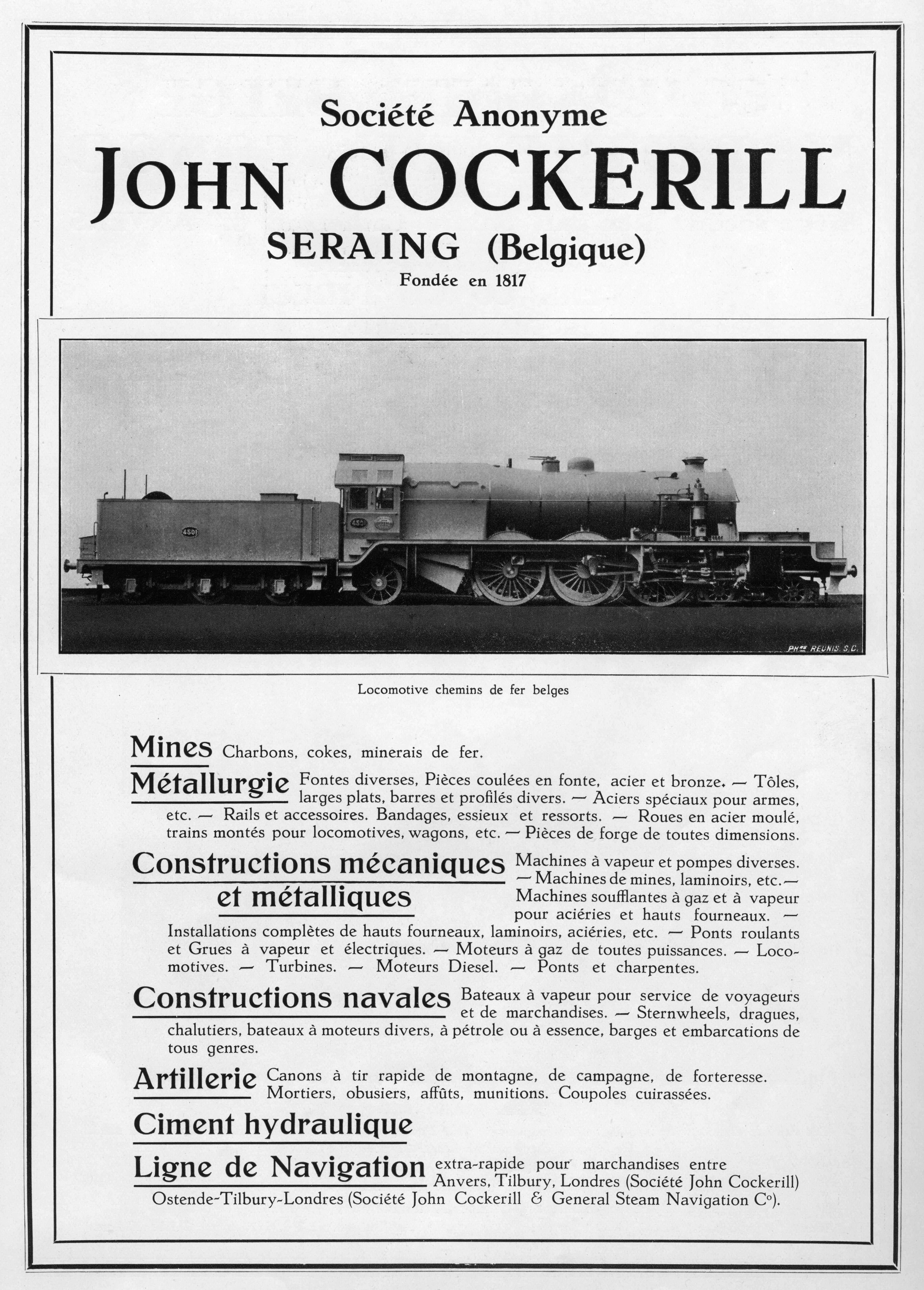 John Cockerill company advertisement. Belgian company